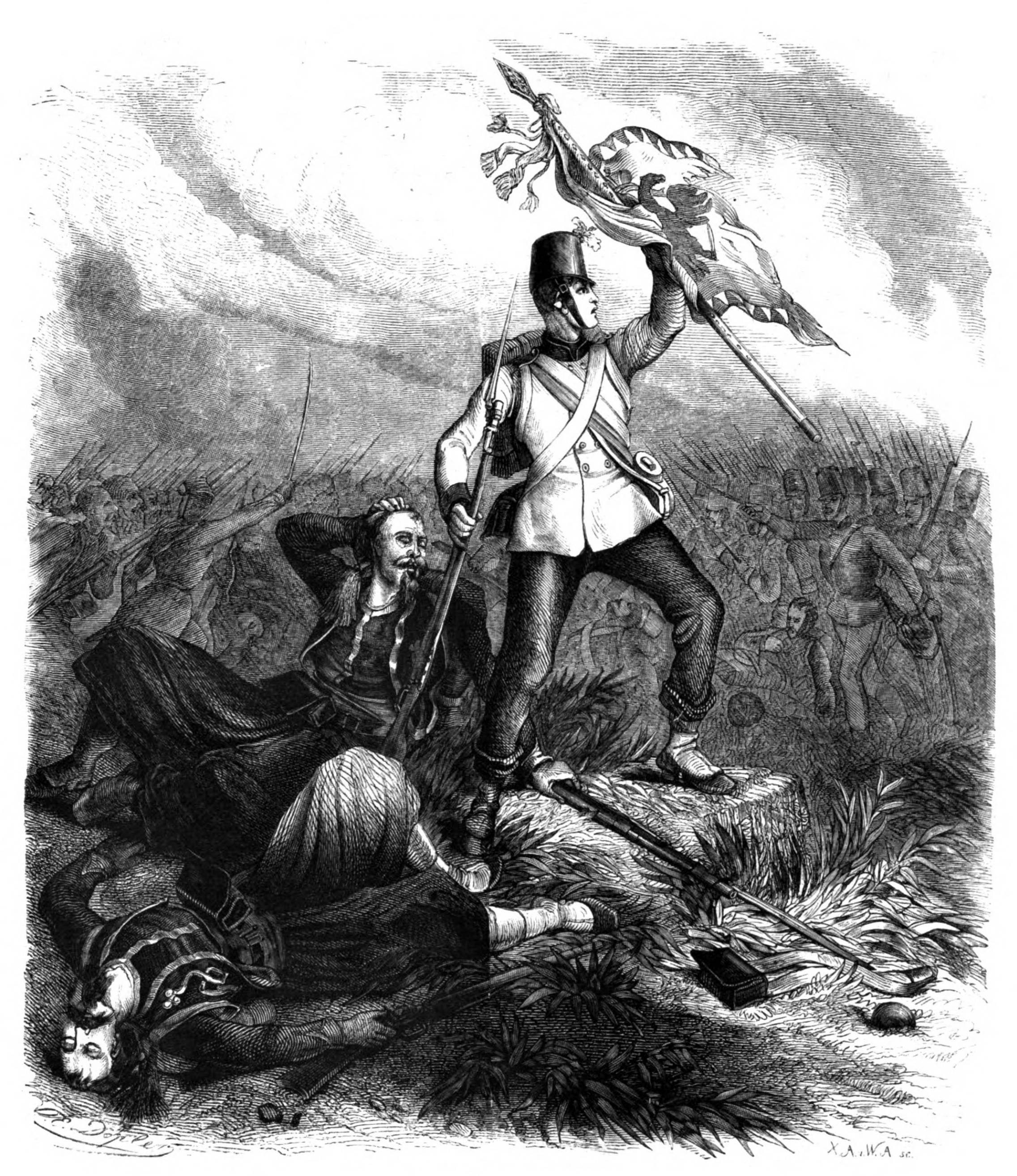 caption: "Die Wiedereroberung einer Fahne in der Schlacht von Magenta."